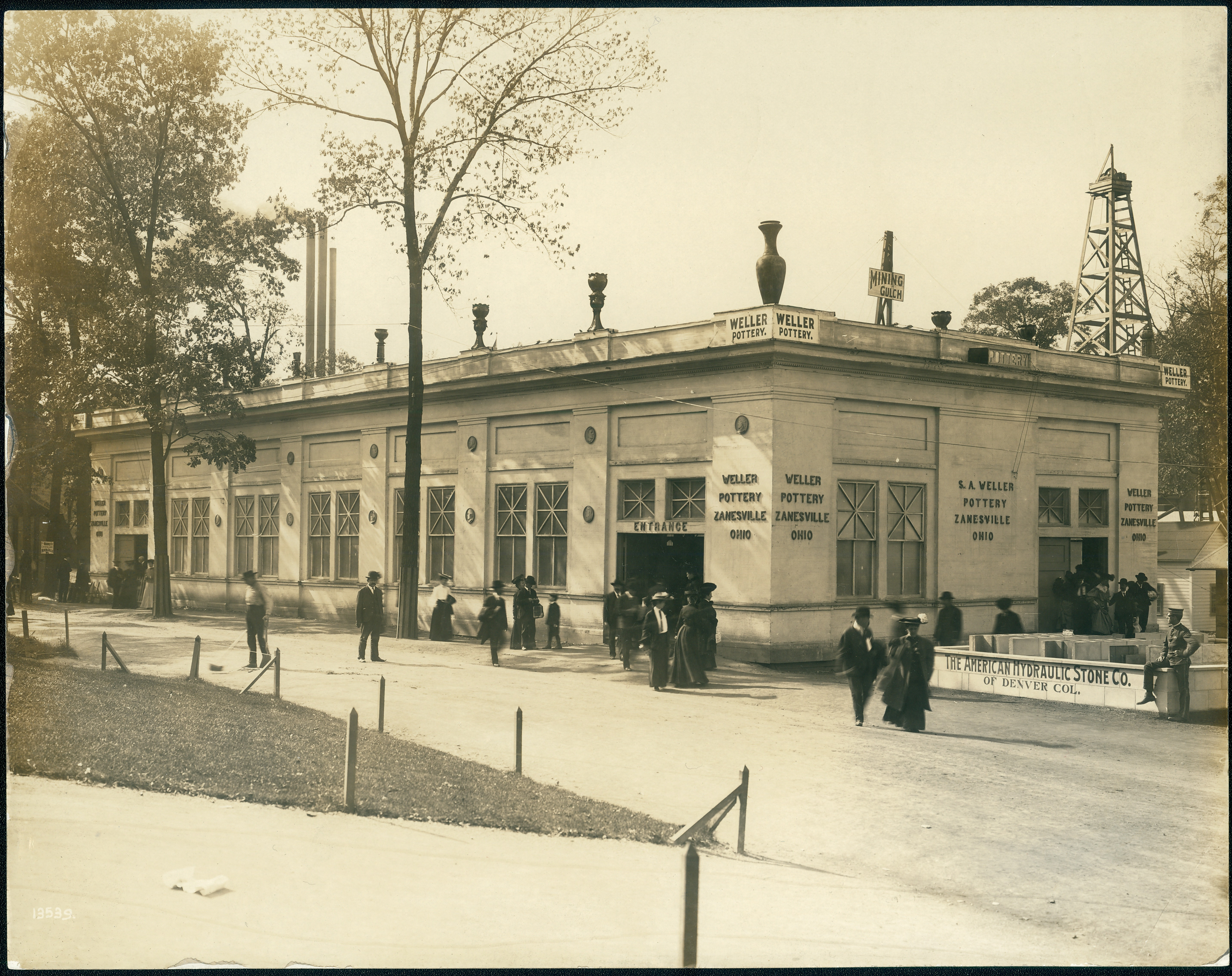 Horizontal, sepia photograph showing a one store stone structure with large vases along top of building. People can be seen walking into and past the building. There is a wooden tower in the right background, and a small stone display with "The American Hydraulic Stone Co. of Denver col." engraved on it to the right. A policemen or other official is leaning on the display.Title: Weller Pottery building at the 1904 World's Fair.